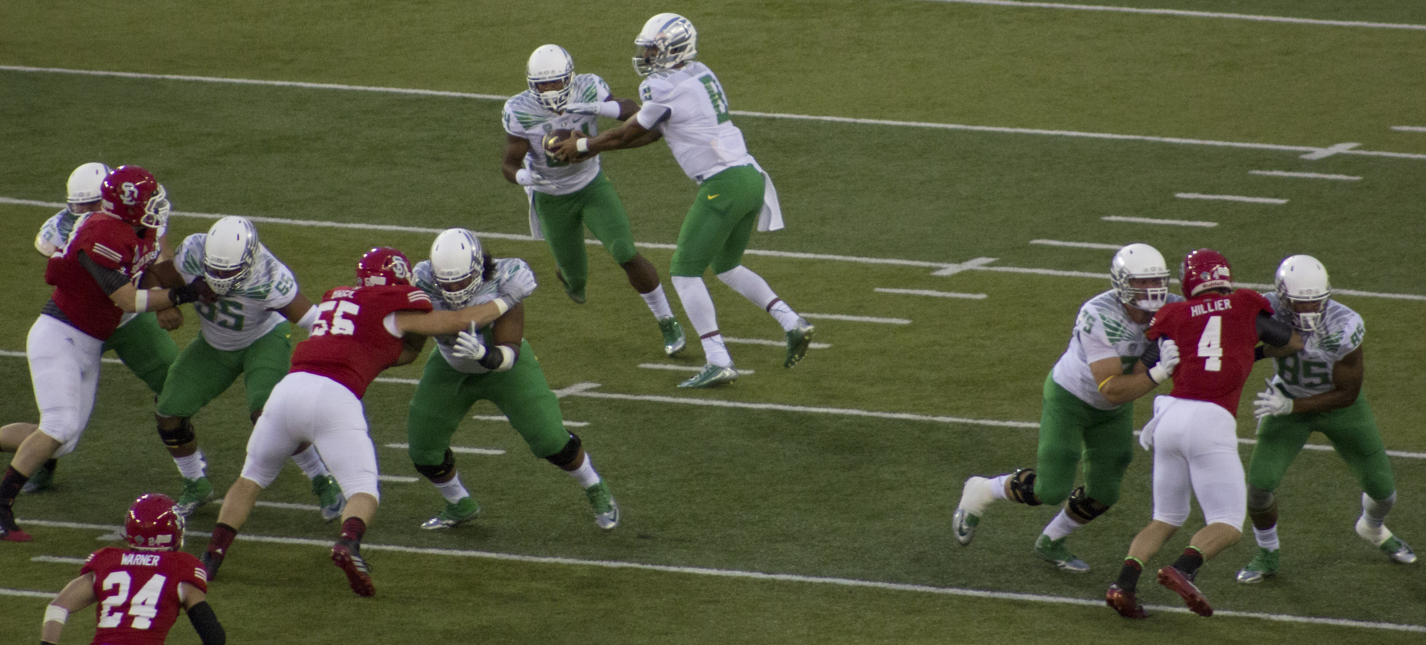 Marcus Mariota hands the ball off to Thomas Tyner in the first quarter against South Dakota in the 2014 season.